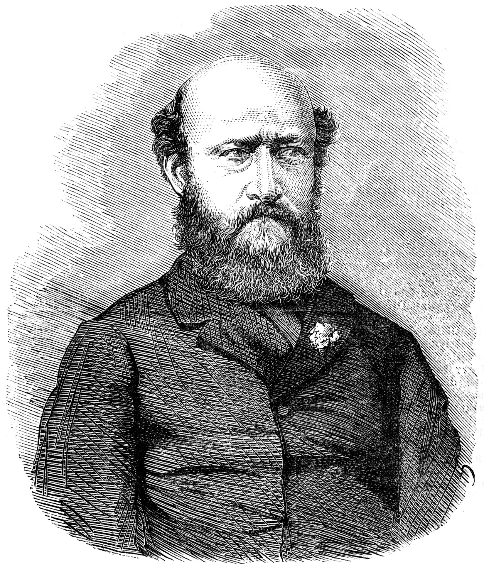 Portrait of Edward Cohen (1822–1877)